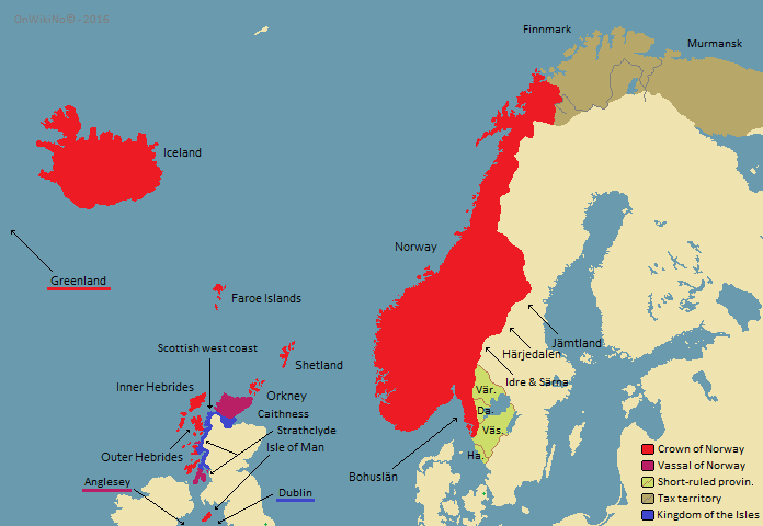 Norwegian Empire / Hereditary Kingdom of Norway, excluding Greenland